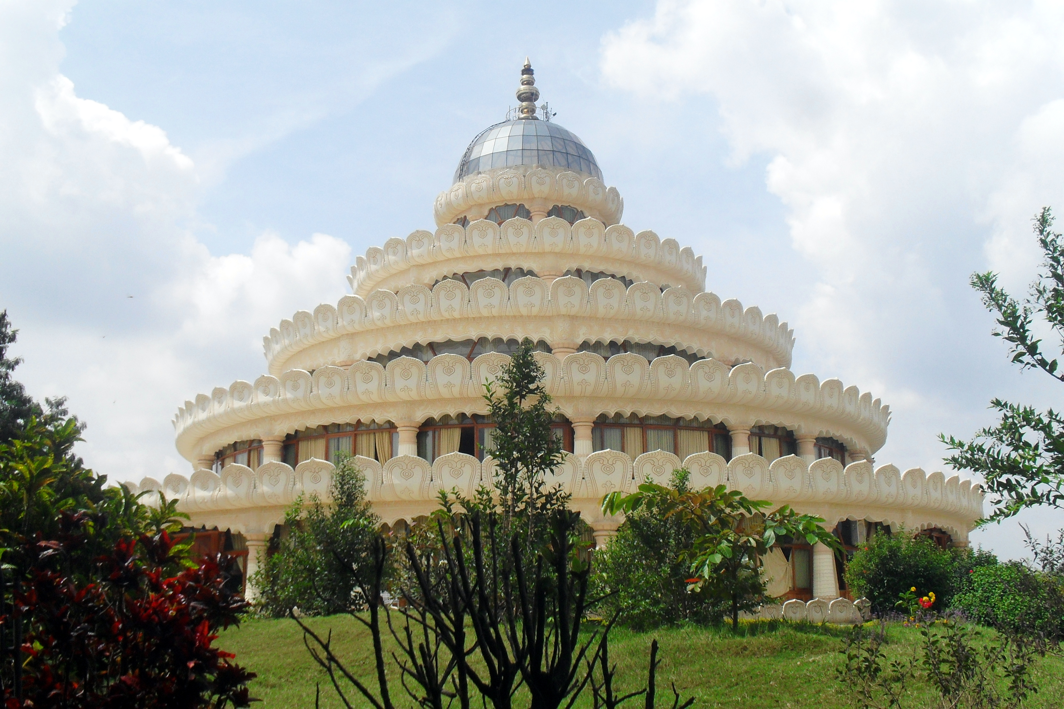 Art of Living International Ashram in Bangaluru, India